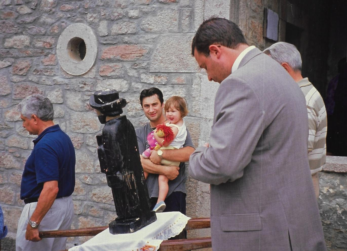 Onlookers watch as the Santiagu Apóstol exits the Santiago del Hermo chapel in Somiedo, Asturias for the procession that takes place every year on the last Saturday of July.